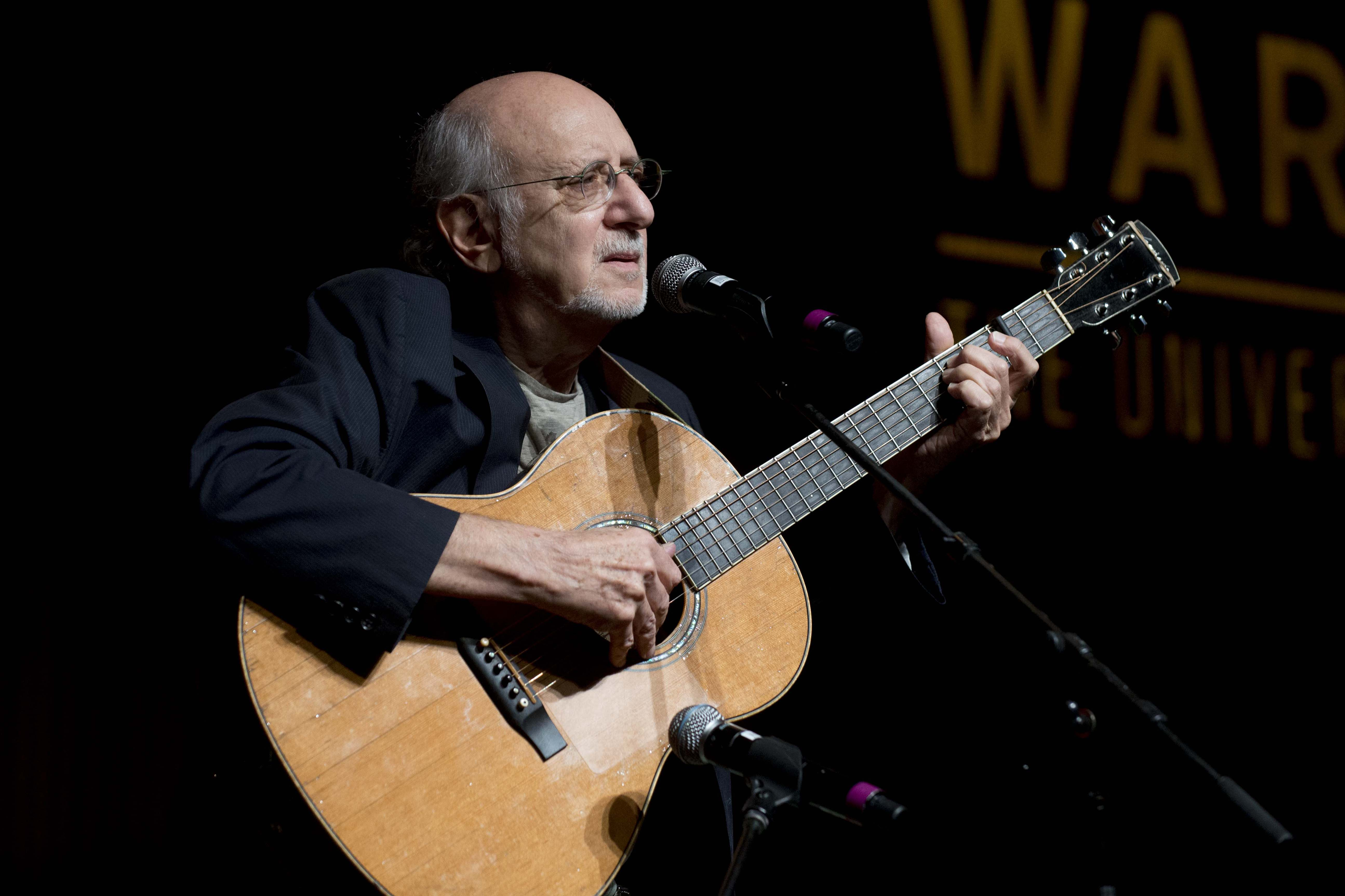 One, Two, Three: What Are We Fighting For? Singer/songwriter Country Joe McDonald, a Navy veteran, and folk singer Peter Yarrow, who performed with his folk group—Peter, Paul and Mary—at the huge 1969 moratorium rally in Washington, D.C. against the Vietnam War, discuss how the music of the 1960s and 1970s helped to comfort U.S. troops in Vietnam while fueling the anti-war movement at home. McDonald wrote one of the most popular Vietnam War protest songs, I Feel Like I'm Fixin' to Die Rag, for his band, Country Joe and the Fish. The music discussion was moderated by Bob Santelli, executive director of the GRAMMY Museum, on Thursday, April 28, 2016, at the LBJ Presidential Library. The event was part of the library’s three-day Vietnam War Summit.